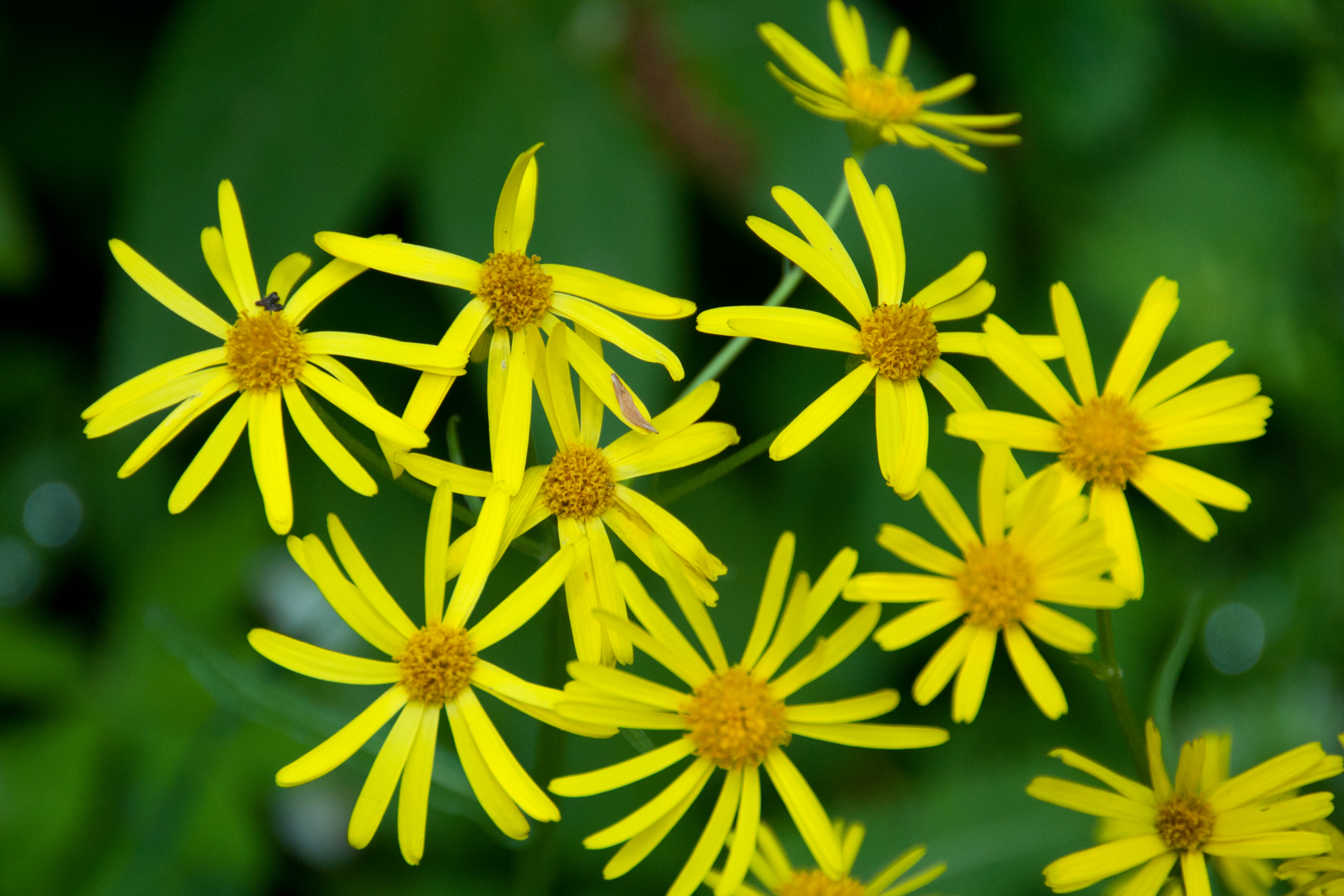 Tephroseris longifolia pseudocrispa